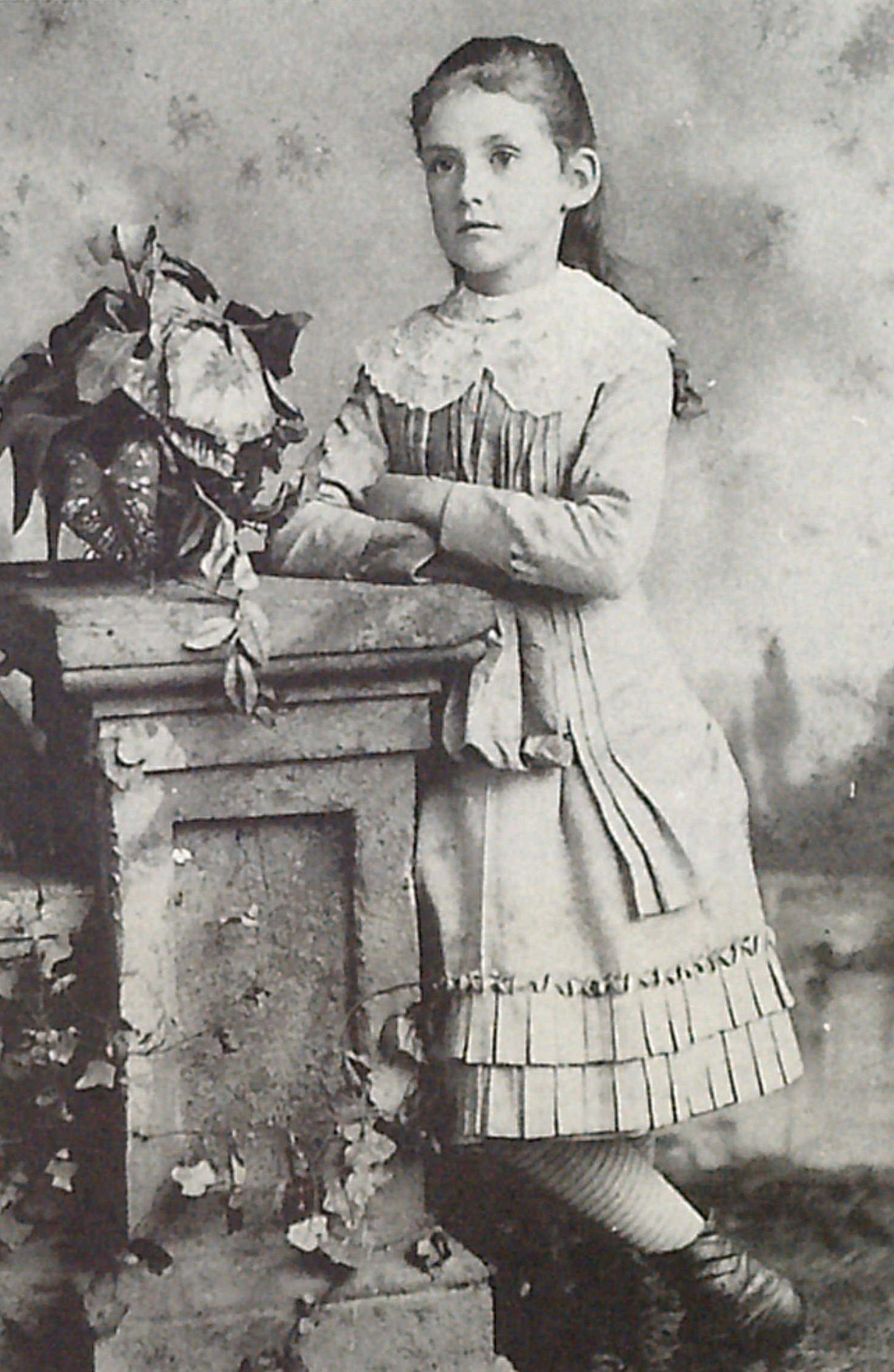 Susan Glaspell, circa 1883